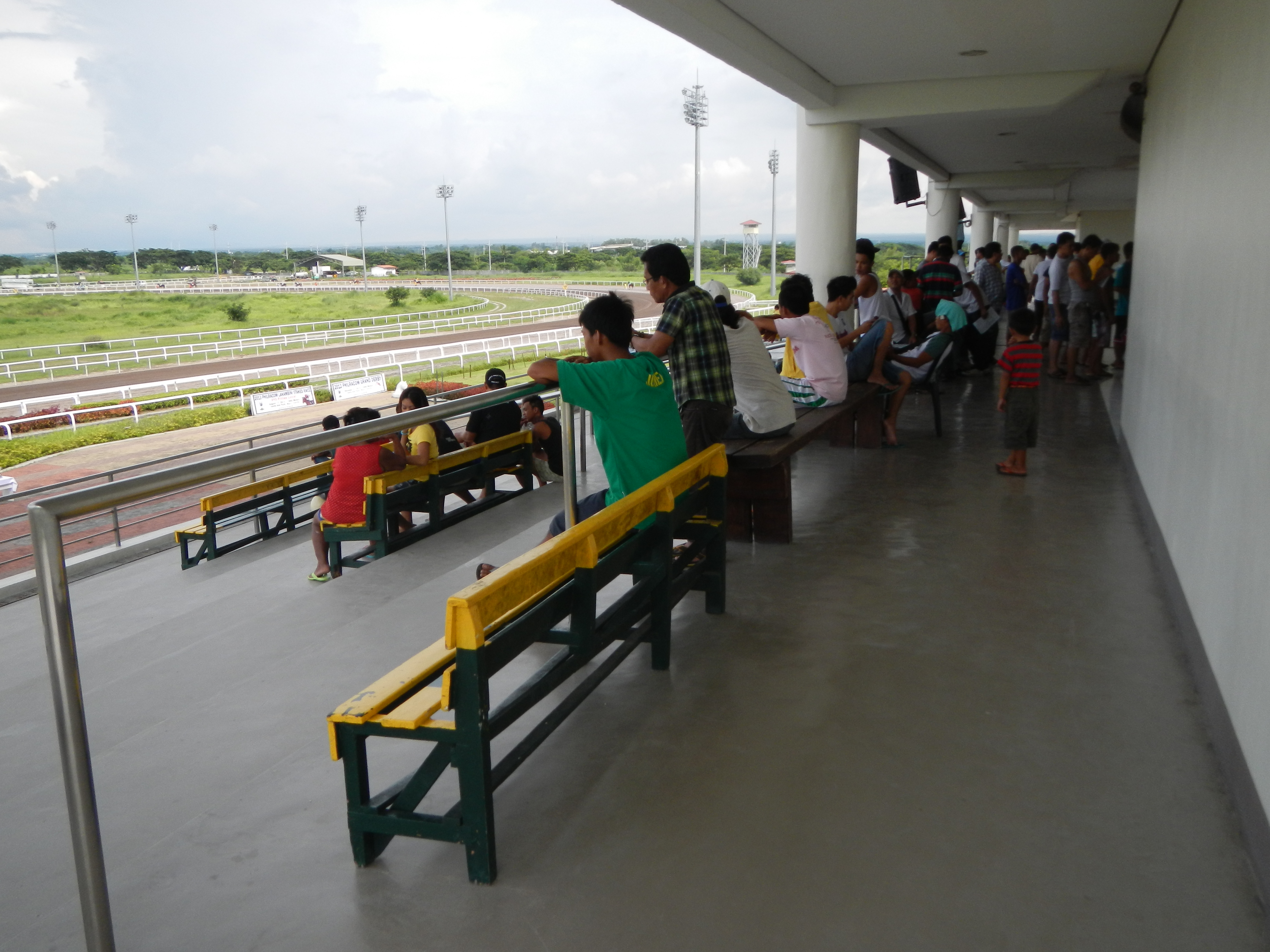 Saddle & Clubs Leisure Park (Santa Ana Park) Race Track at Sabang, Naic, Cavite[1][2] 1937Philippine Racing Club, Inc. Santa Ana Turf Club, known as Philippine Racing Club, Inc. (PRC) a publicly-listed company engaged in constructing, operating and maintaining one racetrack in Makati o. PRC has 208 quality Off-Track Betting Stations (OTB), equipped with computerized facilities. Sta. Ana Park A.P. Reyes Ave., Makati City [3] [4] It is located in the tri-boundary area of the municipalities of Naic, Tanza and Trece Martirez in Cavite. Sta. Lucia Realty & Development Inc. and its partners namely: Philippine Racing Club Inc. 1,600-meter sand track is 25 meter wide, has inside turning radius of 128 meters, homestretch between turns in 400 meters long, and the distance from the finish line is 100 meters with approximately 1,000 stable with tack and feed rooms.